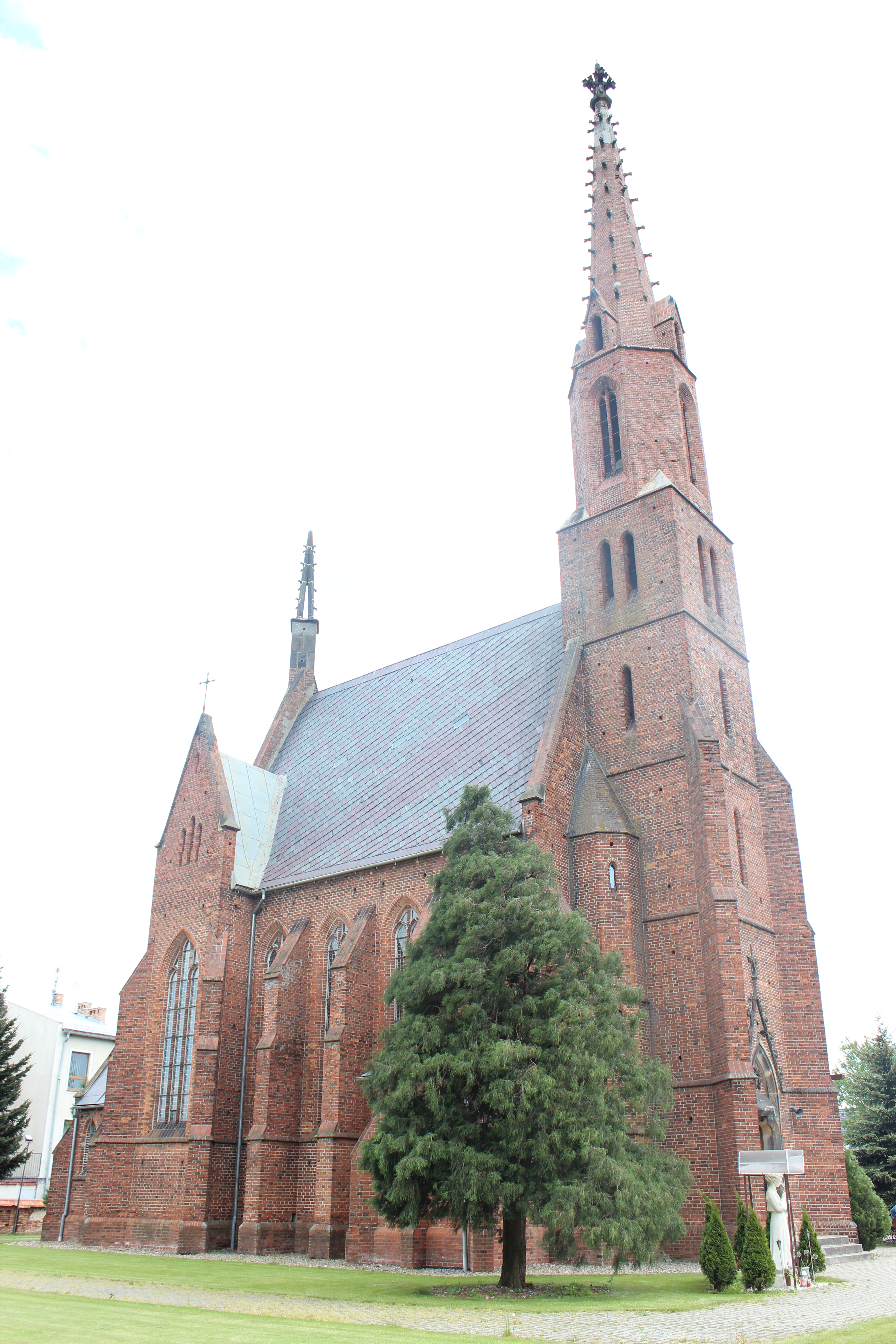 Church of Our Lady in Chrzastawa Wielka